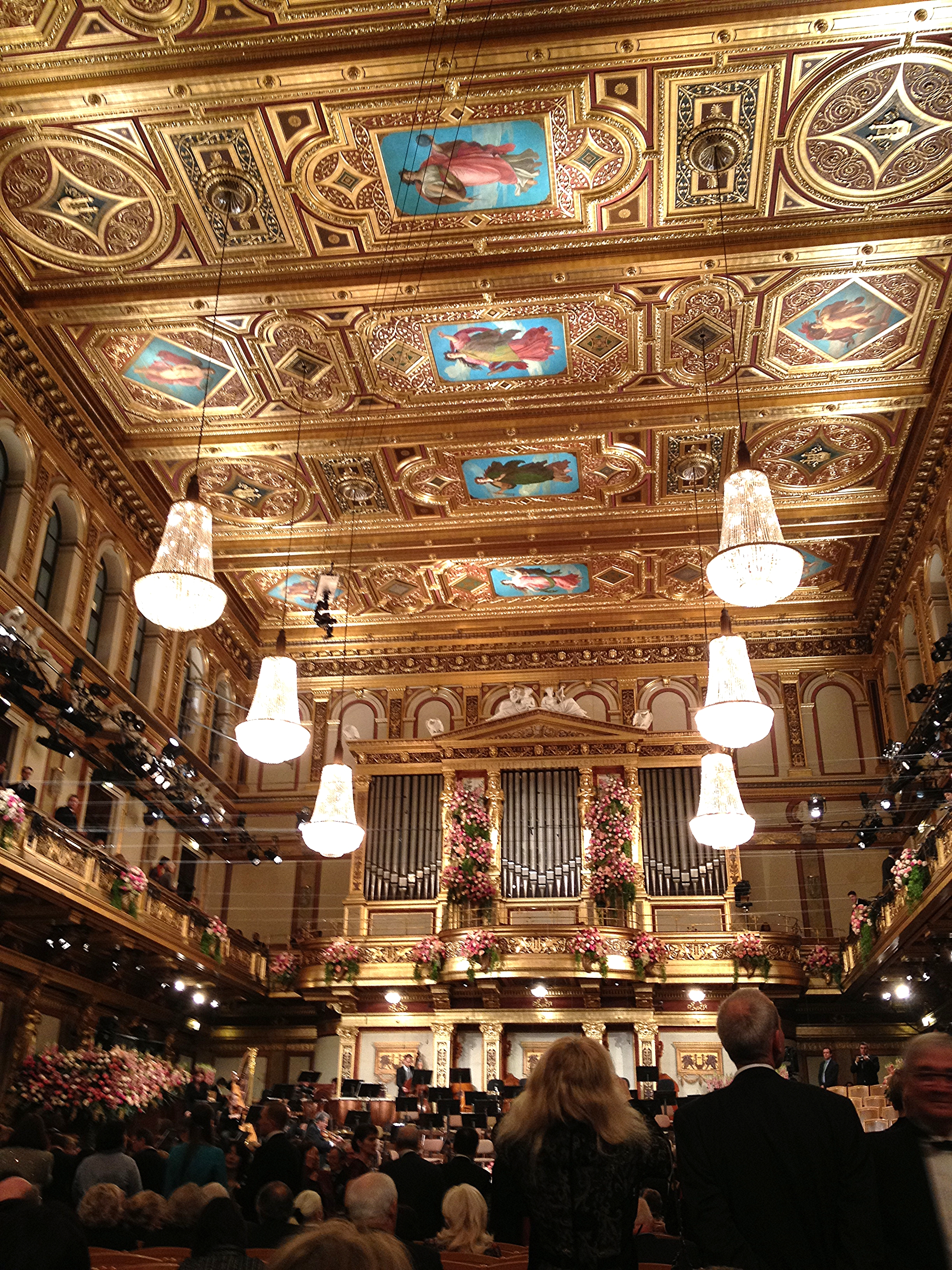 The New Year's Eve Concert 2013 at The Wiener Musikverein